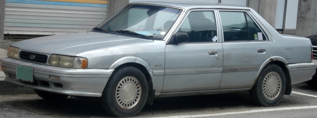 Kia New Capital